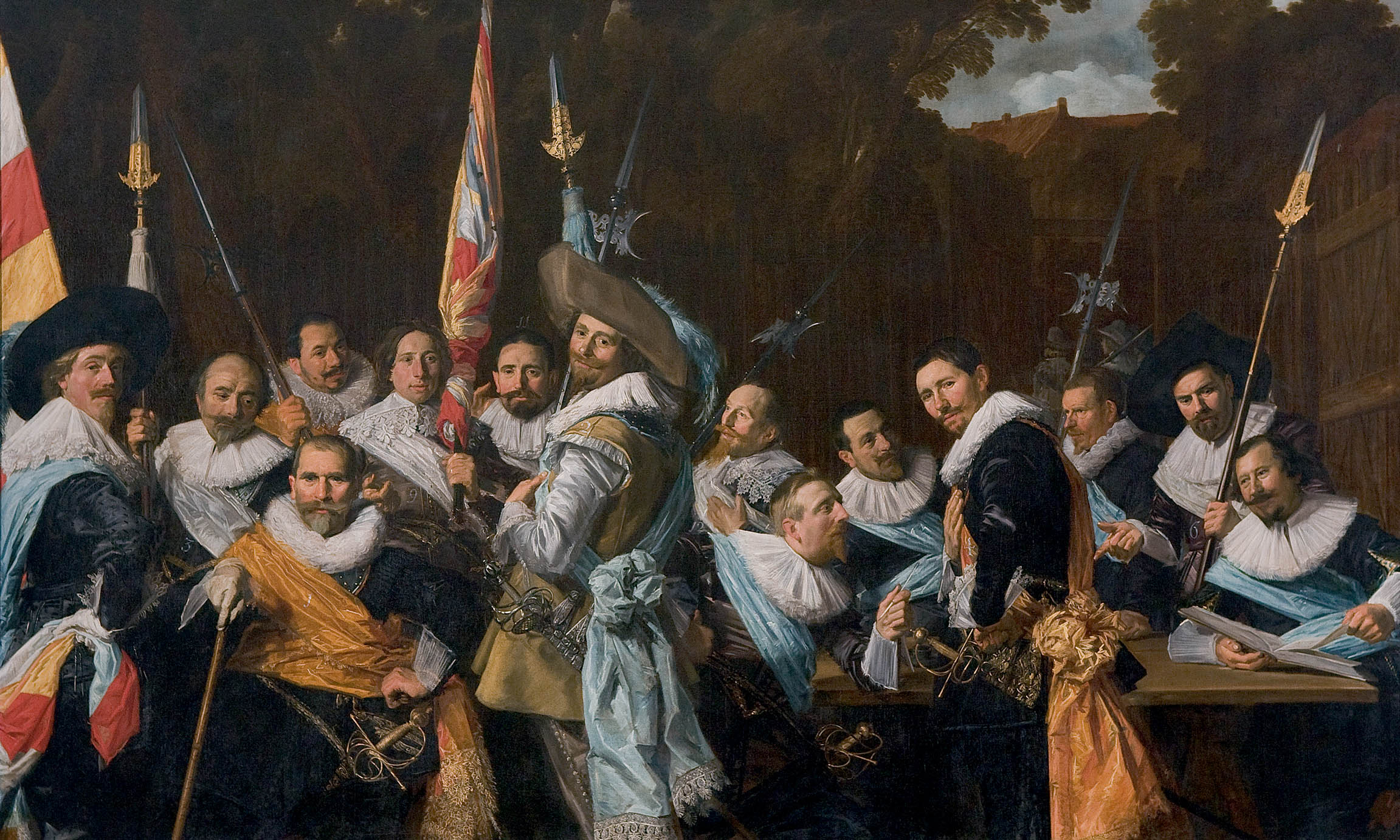 The portrayed men are from left to right: Ensign Jacob Hofland, Captain Cornelis Backer , Sergeant Dirck Verschuyl (standing in background with halberd), Colonel Johan Claesz. Loo (sitting in foreground with right hand on walking stick), Ensign Jacob Steyn (flag in left hand), Sergeant Balthasar Baudaert (standing in background), Captain Johan Schatter (standing with magnificent blue sash with bow), Sergeant Cornelis Jansz. Ham (balding, sitting behind the table), Lieutenant Jacob Pietersz. Buttinga (foreground), Sergeant Hendrik van den Boom (background), Captain Andries van der Horn (standing with orange sash with bow), Sergeant Barent Mol (standing behind the table), Lieutenant Nicolaes Olycan (standing and pointing his finger), Lieutenant Hendrick Gerritsz. Pot (sitting with book).